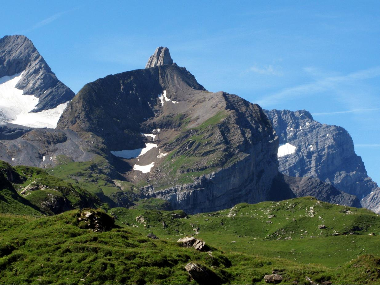 View from Col de Cheville (Pierre qu'Abotse (centre), Tête à Pierre Grept (far-left), Vaud Alps